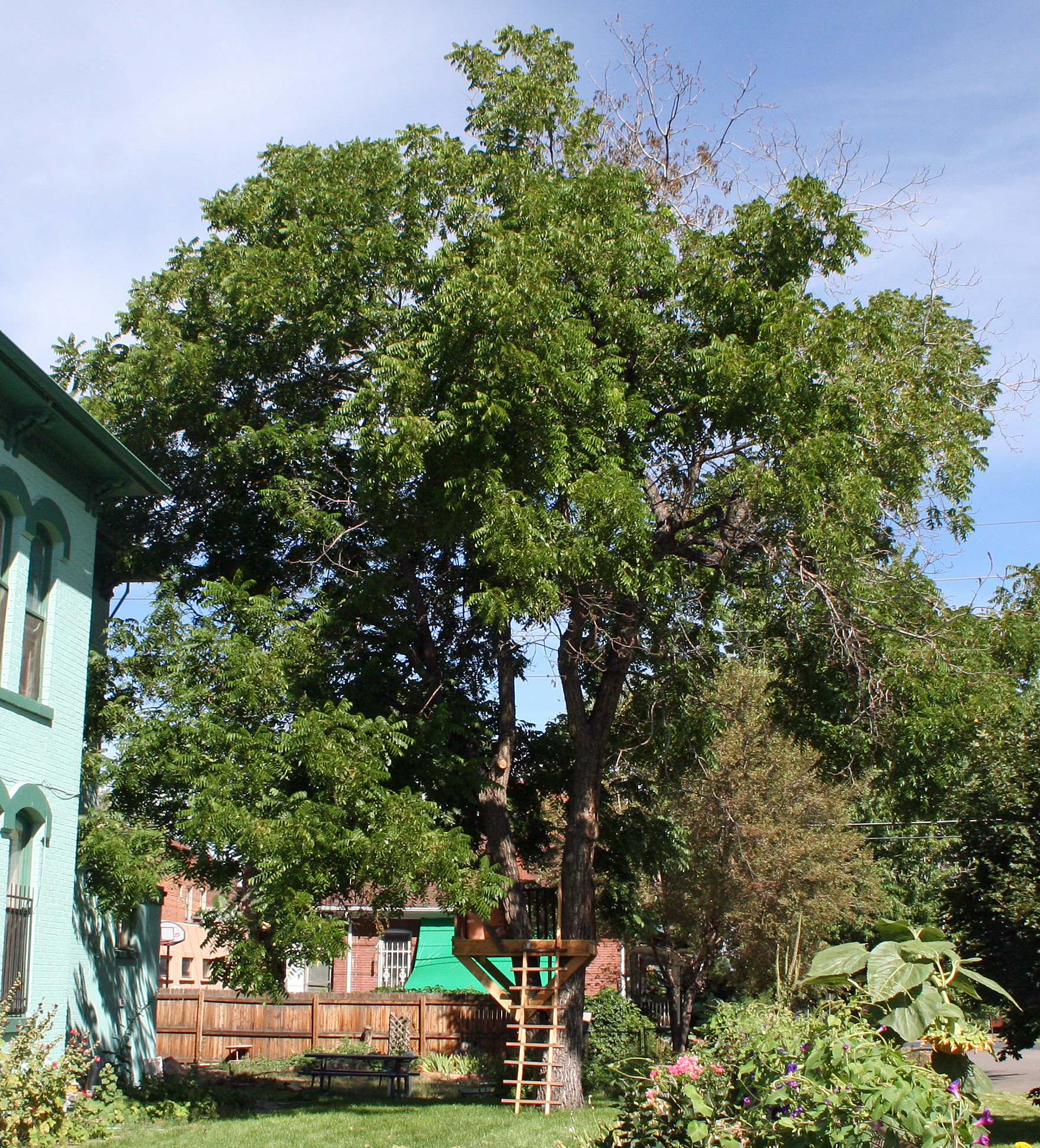 A black walnut tree (juglans nigra) that has thousand cankers disease.